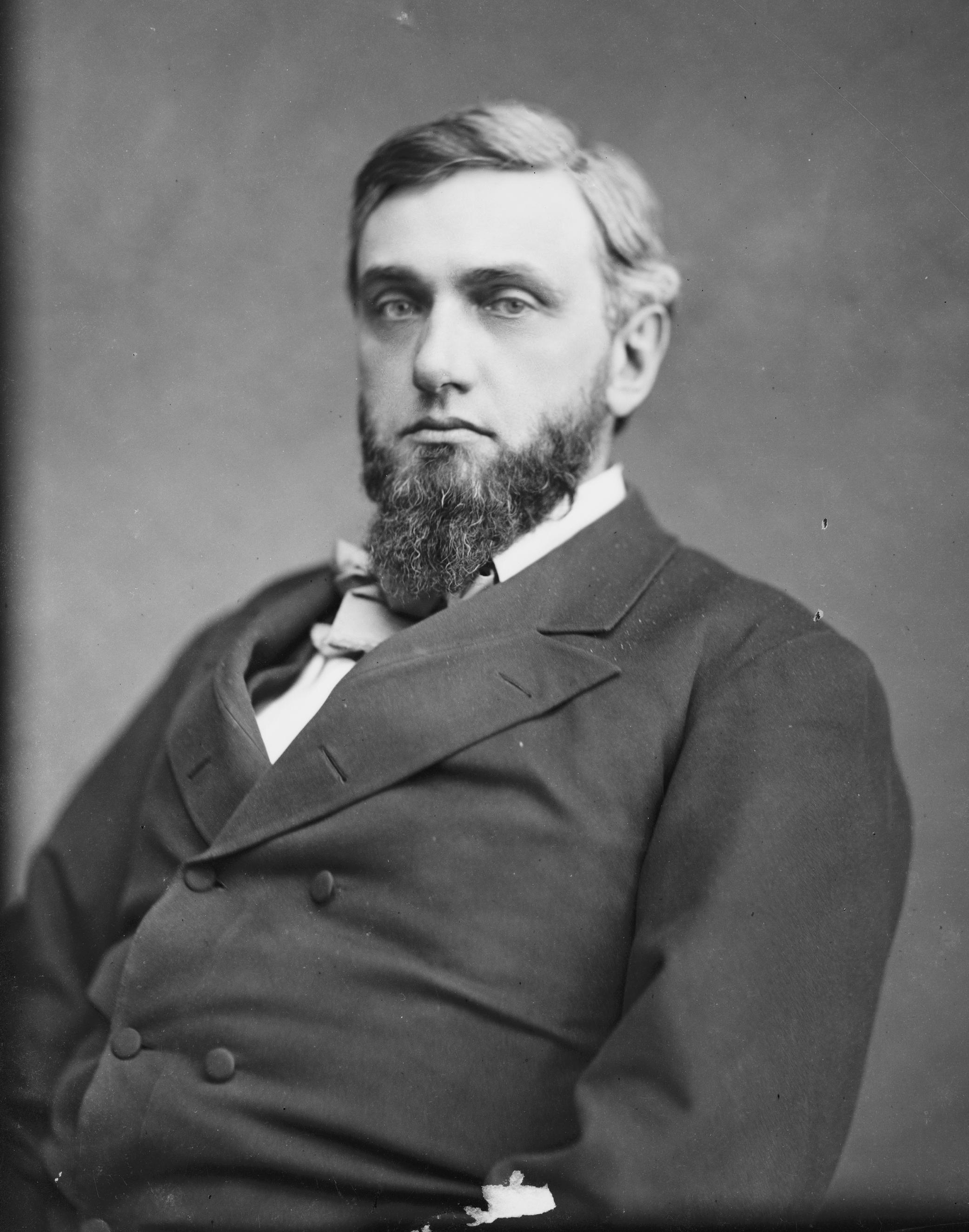 Frank Hiscock. Library of Congress description: "Hiscock, Hon. Frank of N.Y."